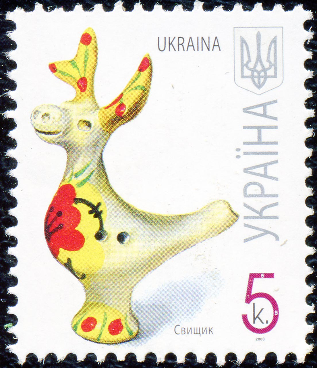 Stamp of Ukraine featuring a whistle